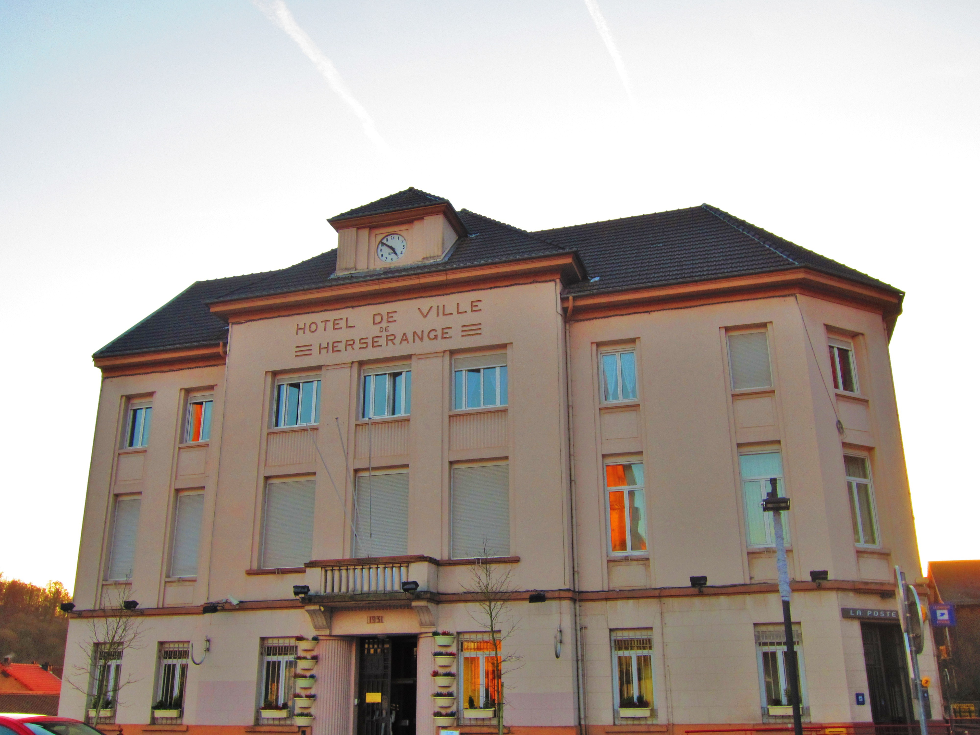 Herserange town council